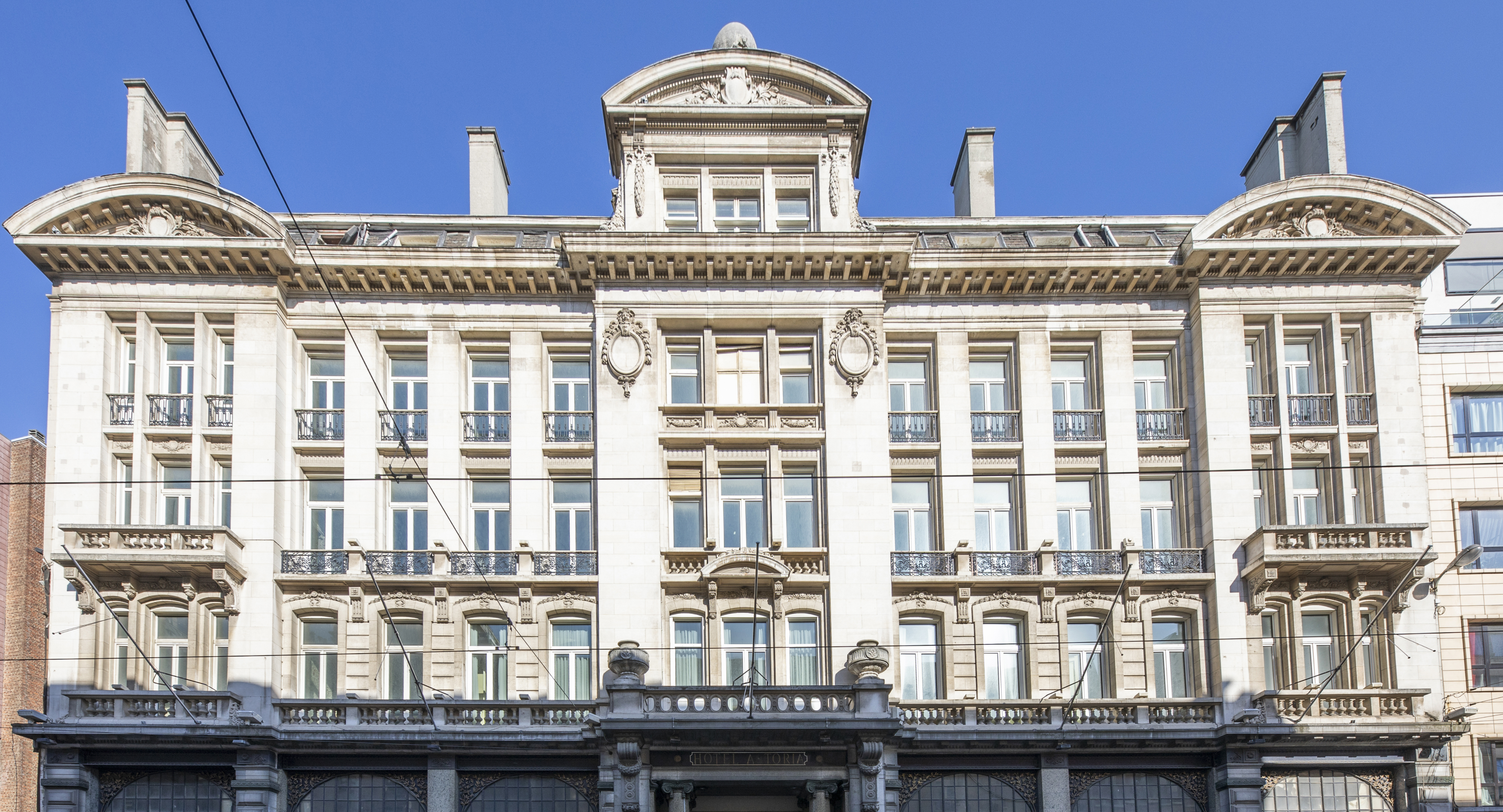 The Hotel Astoria is a five-star hotel in Brussels, Belgium, built in 1909, by architect Henri Van Dievoet. It has served as a famous meeting place of kings and other great statesmen and world personalities. Since 2000, the hotel has been listed as a protected monument.